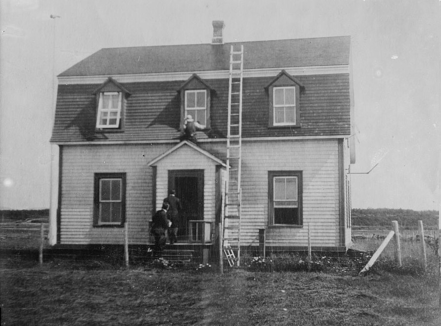 Wireless station at Pointe-au-Père (Quebec, Canada)